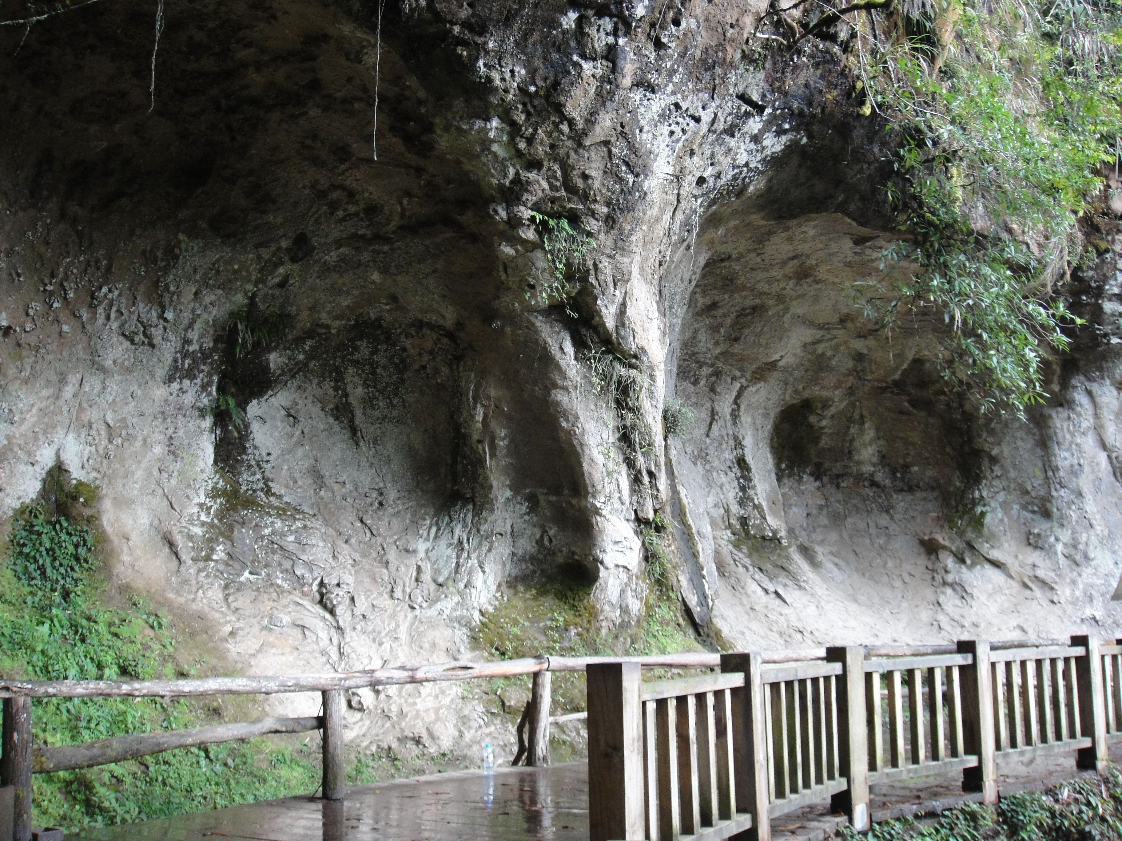 The eye of Heaven and Earth is a tourist attraction of Shanlinhsi Scenic Area in Nantou County,Taiwan.中文（中国大陆）: 天地眼是台湾杉林溪十景之一。